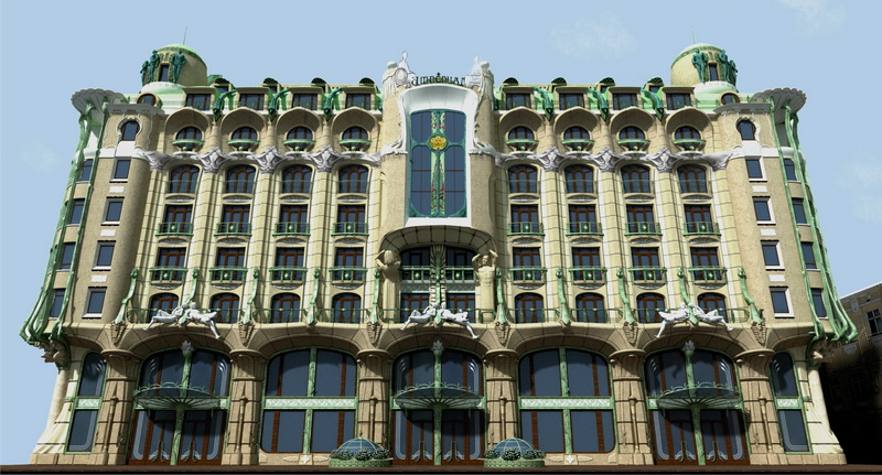 Visualization Project Hotel Imperial